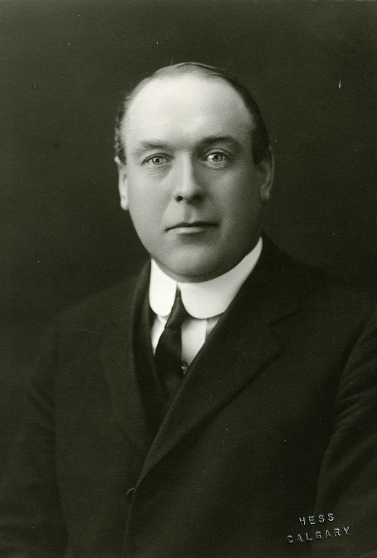 Hess, Calgary A portrait of Calgary MLA Alex Ross. Alex Ross, a Dominion Labour MLA, was named Minister of Public Works in the 1921 UFA cabinet. He ran in the 1926 Alberta general election, but was unable to win a seat. To see more historic UFA materials, visit the United Farmers Historical Society at .